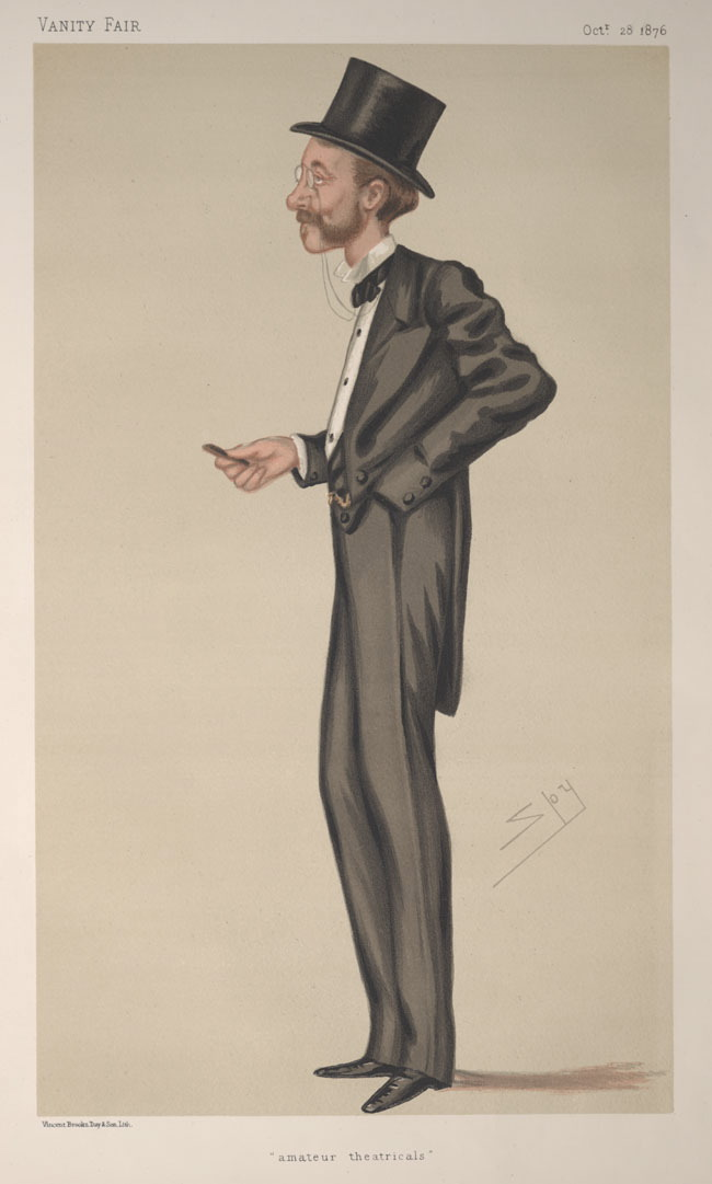 Men of the Day No.140: Caricature of Viscount Newry And Mourie. Caption reads: "amateur theatricals"